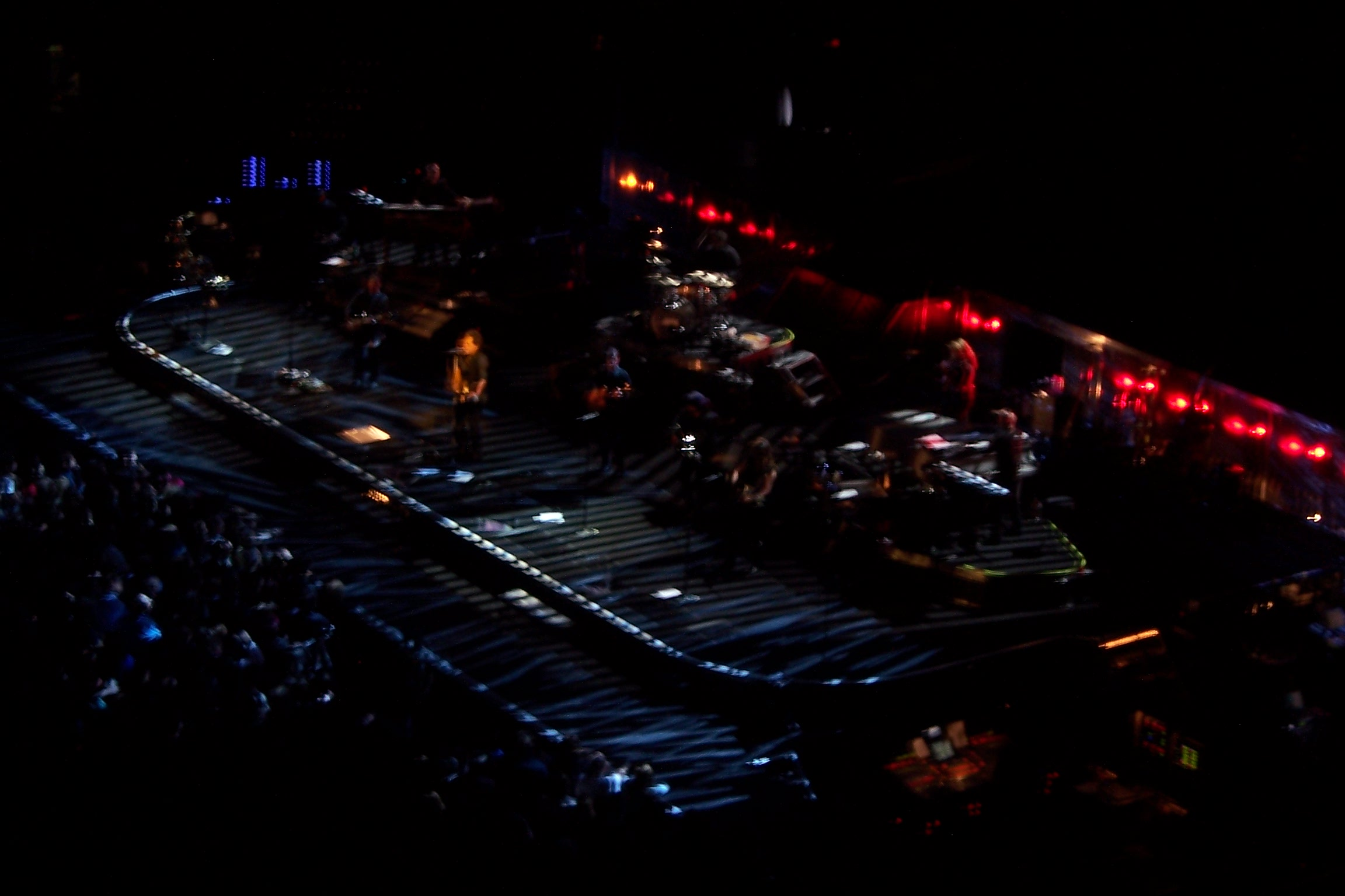 Bruce Springsteen and the E Street Band perform "Devil's Arcade" at the TD Banknorth Garden, Boston, 18 November 2007. Taken by me.